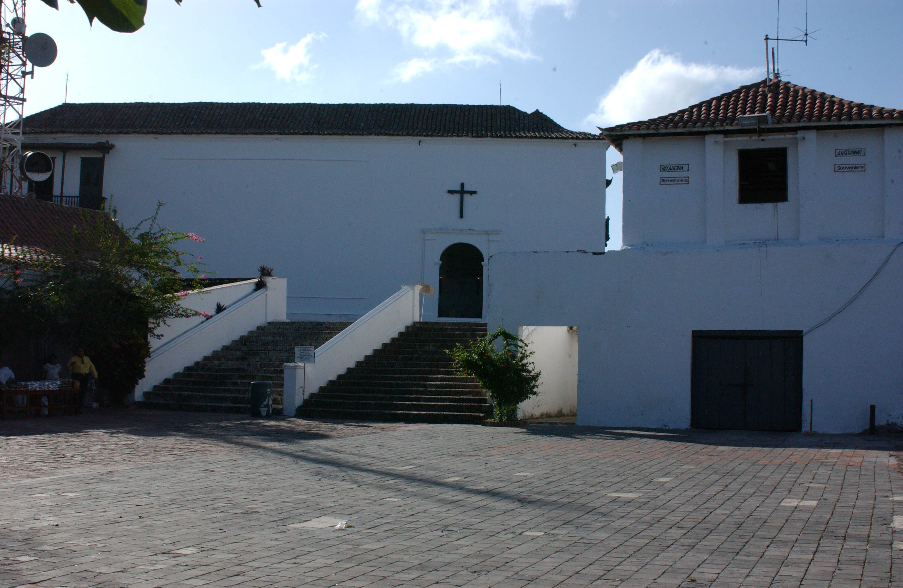 FOUNDED BY THE AUGUSTINE FATHERS IN 1607, ITS OFFICIAL NAME IS ACTUALLY CONVENTO DE NUESTRA SENORA DE LA CANDELARIA: IT IS LOCATED ON A HIGH HILL ABOVE THE CITY